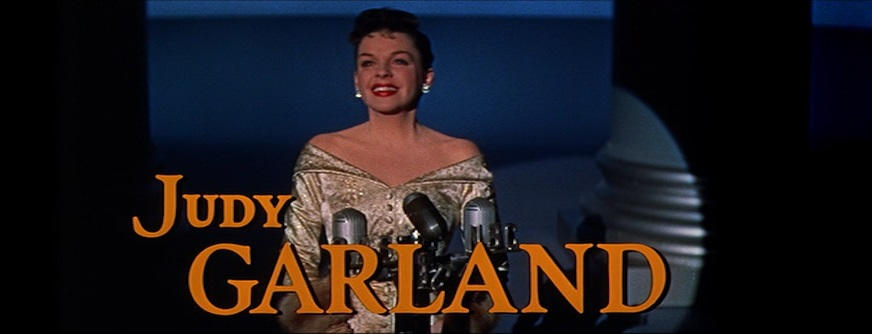 Cropped screenshot of Judy Garland from the trailer for the film A Star Is Born.